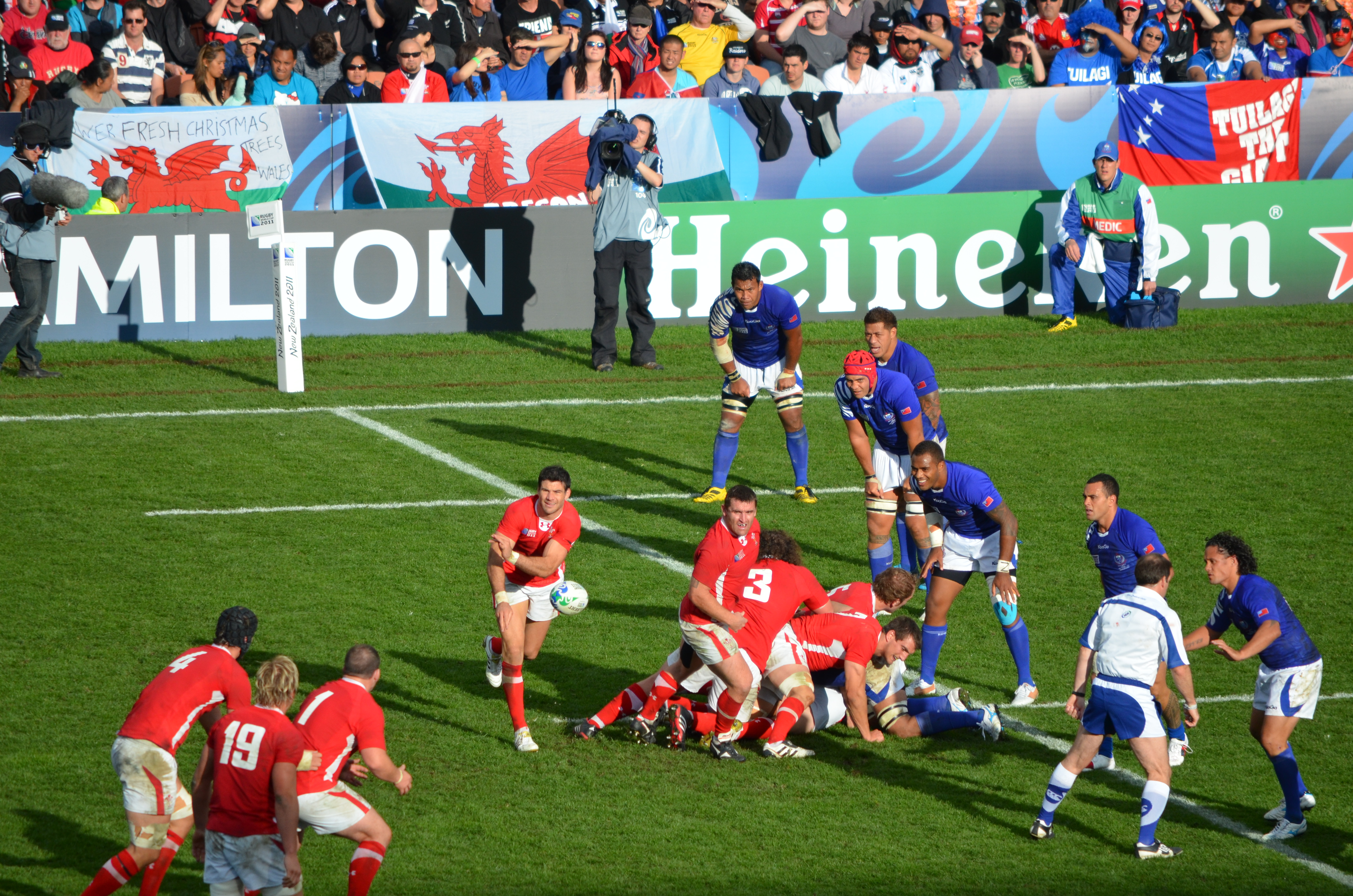 DSC_0886 2011 Rugby World Cup Wales vs Samoa